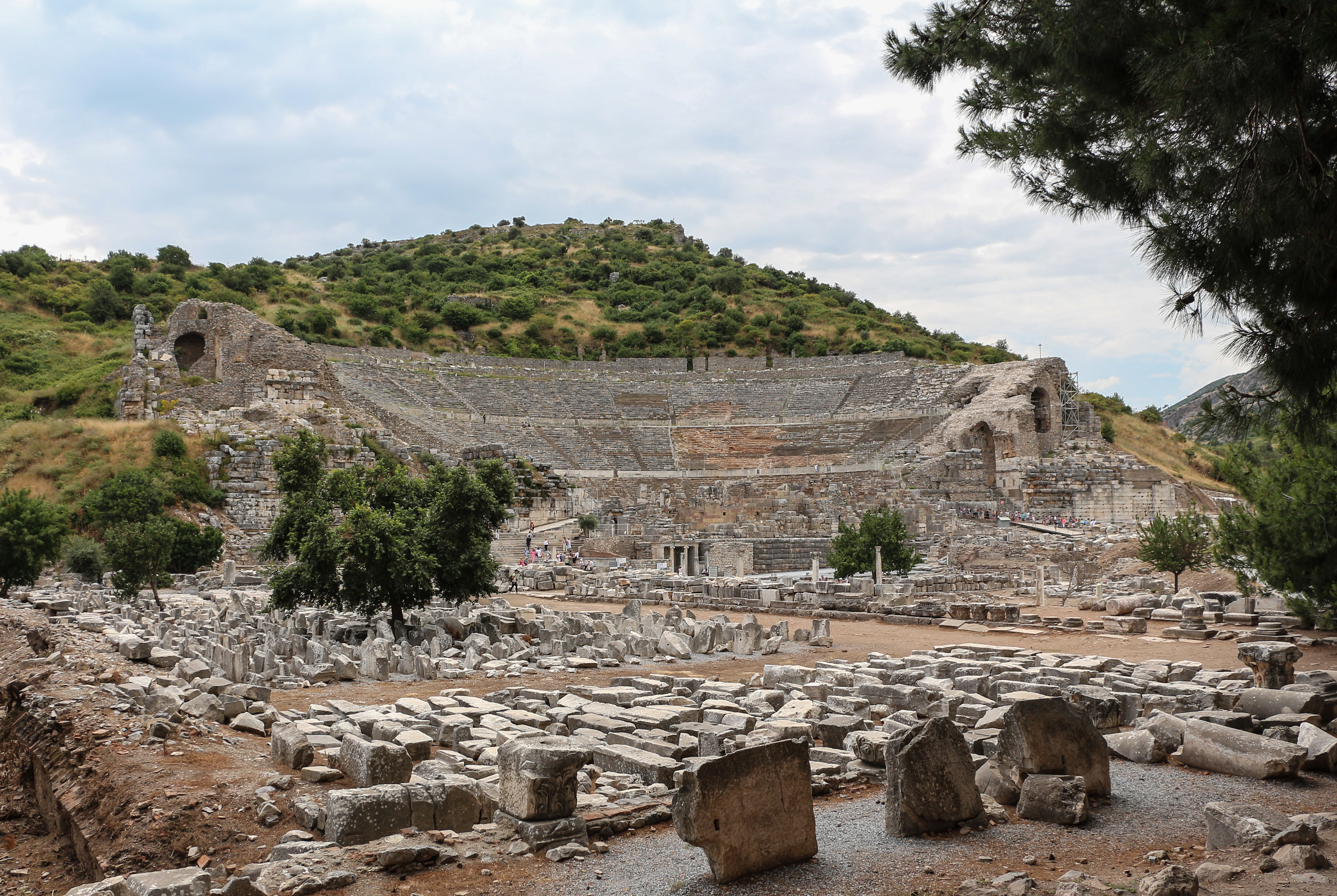 Ancient Greek theatre in Ephesus, Turkey